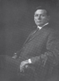 Co-founder of Humble Oil Company